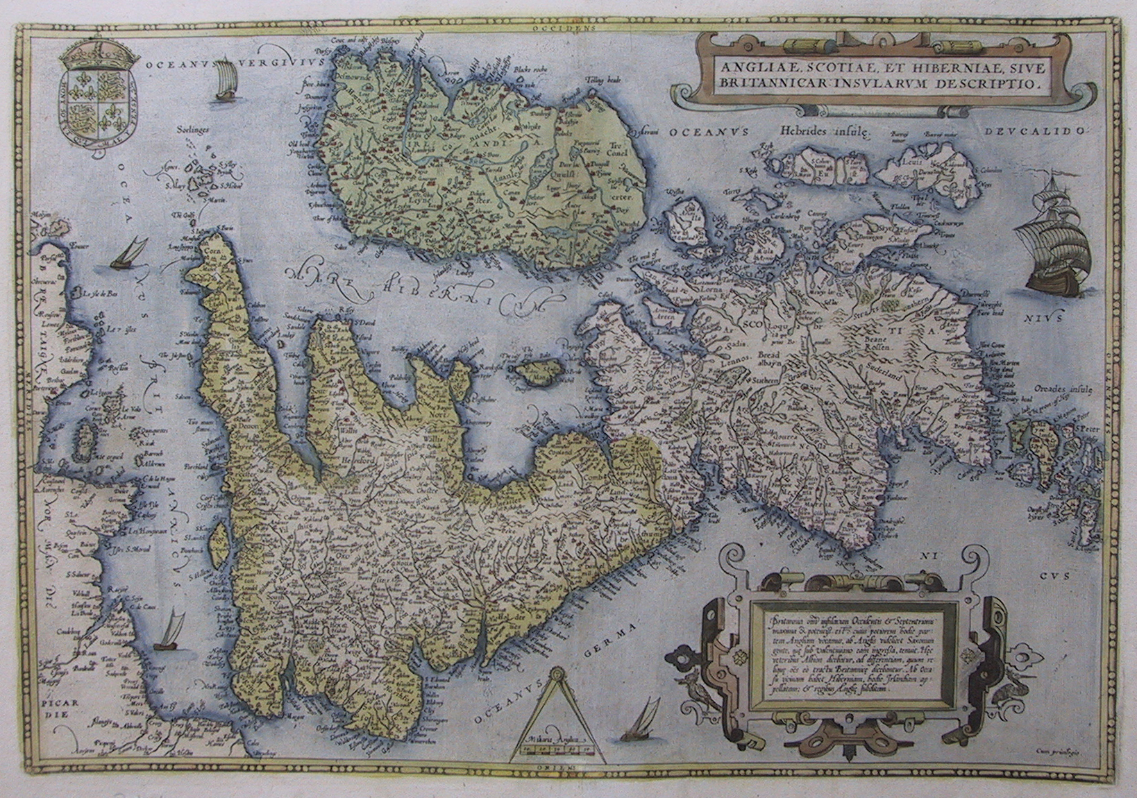 Map of the British Isles including Ireland, as drawn by Abraham Ortelius in 1579.